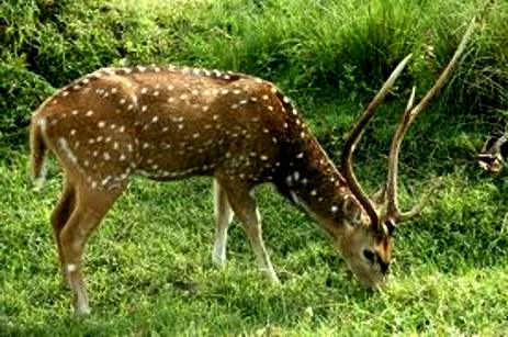 Deer of Pench Forest